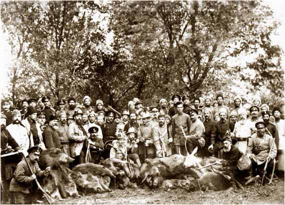 Hunting in Karaiaz